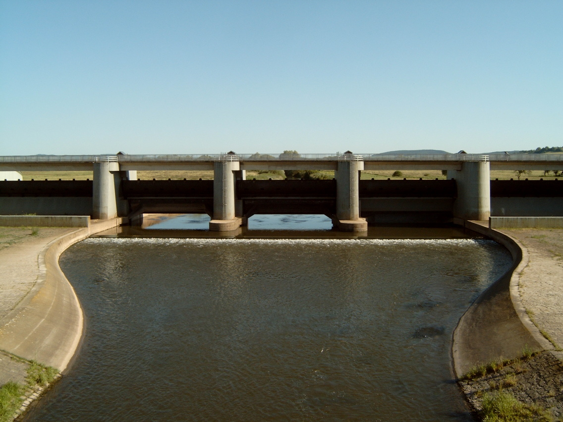 flood protection reservoir "Salzderhelden", final dam